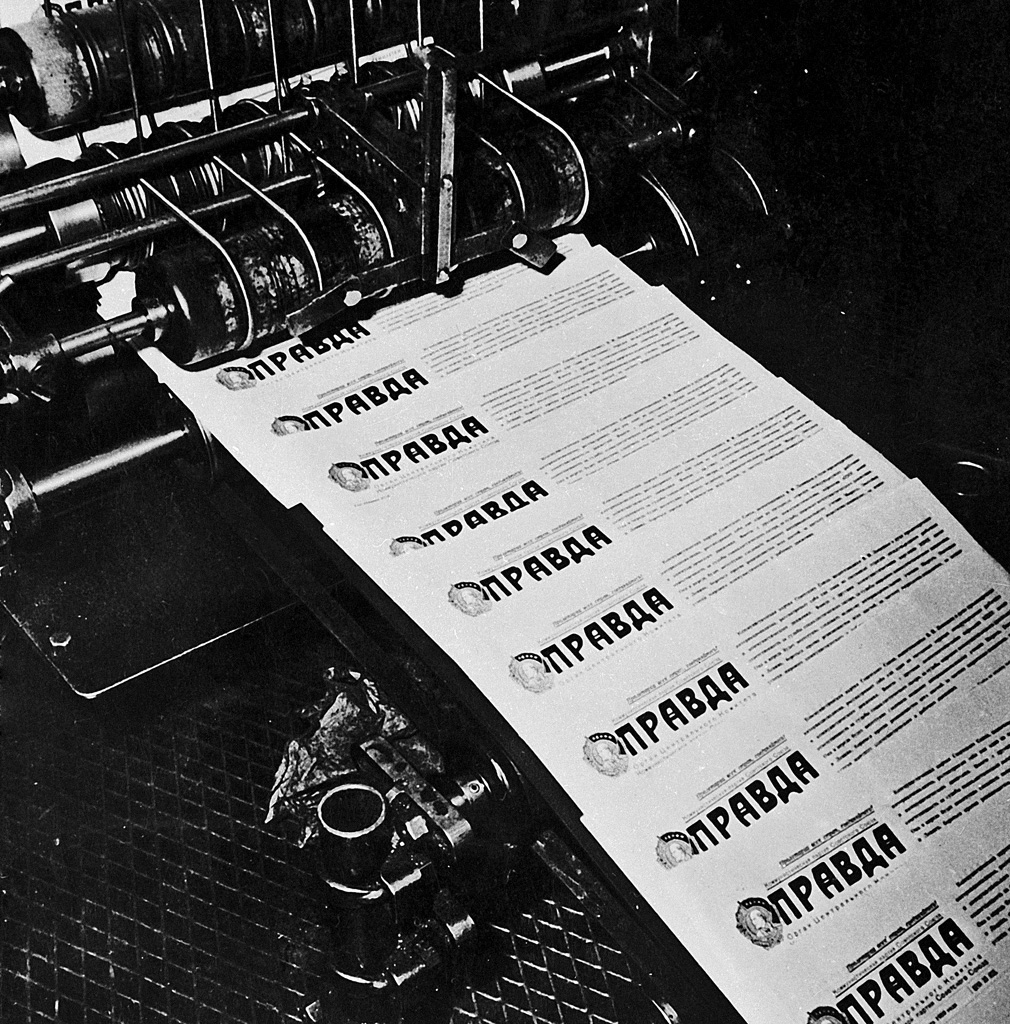 “Printing Pravda”. The newspaper Pravda being printed on a rotary press.